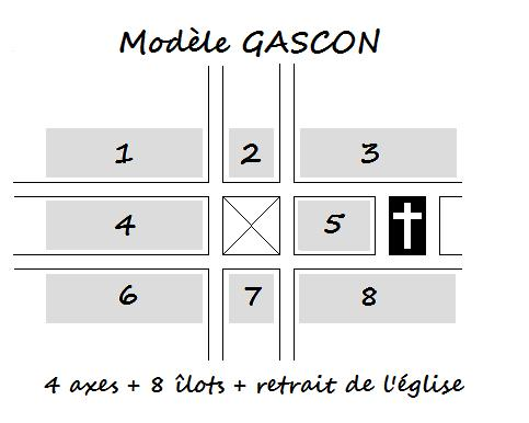 Bastide (town) - map Gascon